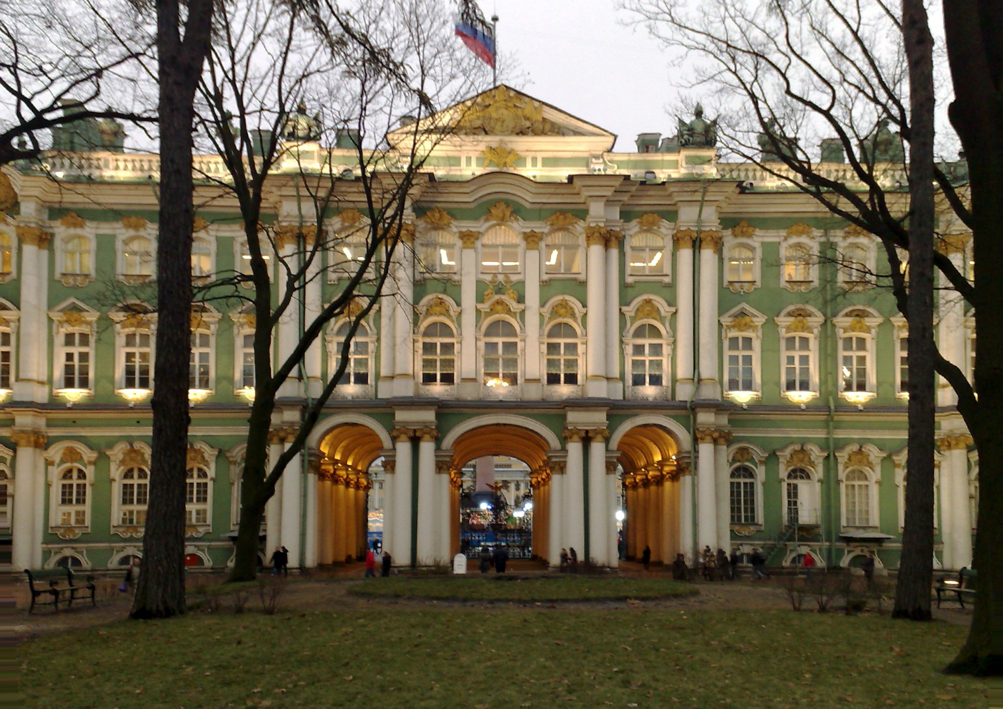 The entrance to Winter Palace, showing the garden. St Petersburg, December 2007